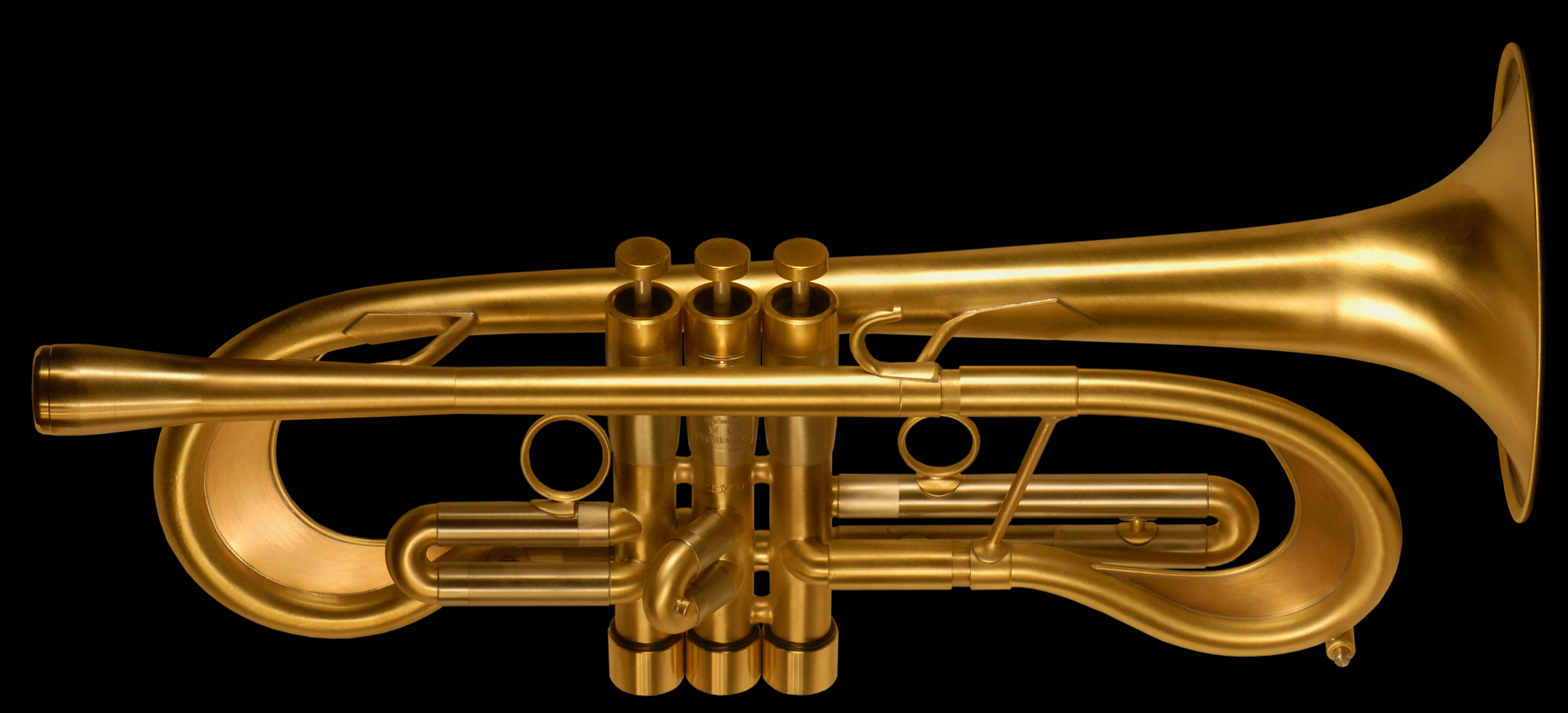 Flumpet